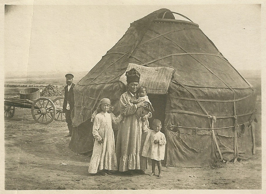 Kalmyk people around Volgograd. Circa 1917.